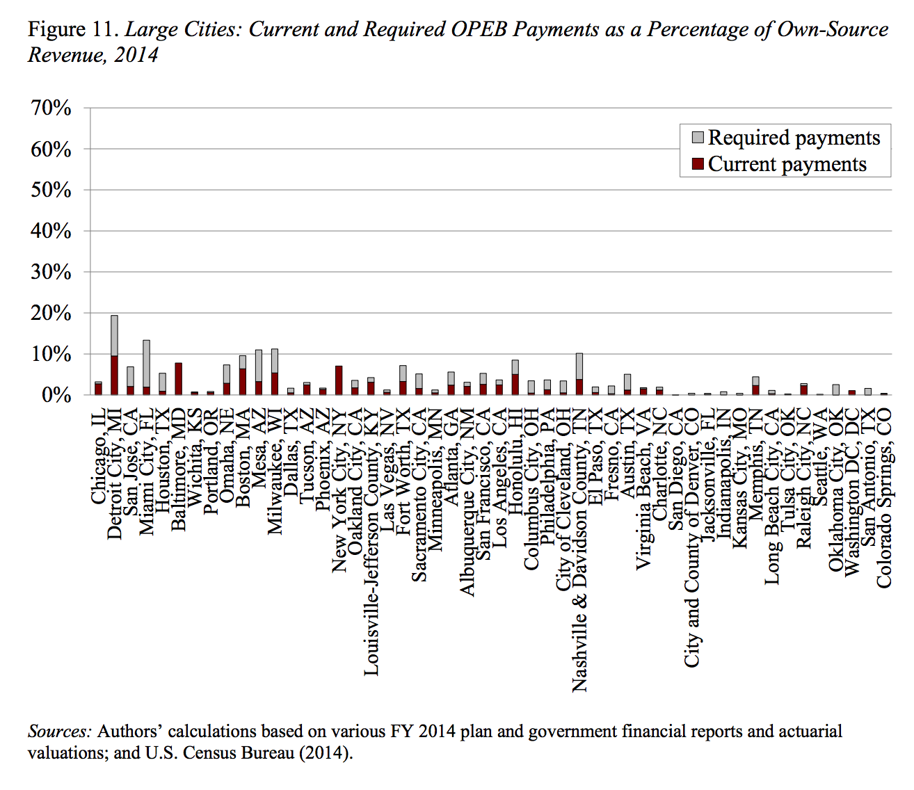 Current and Required OPEB Payments for Large Counties as a Percentage of Own Source Revenue, 2014